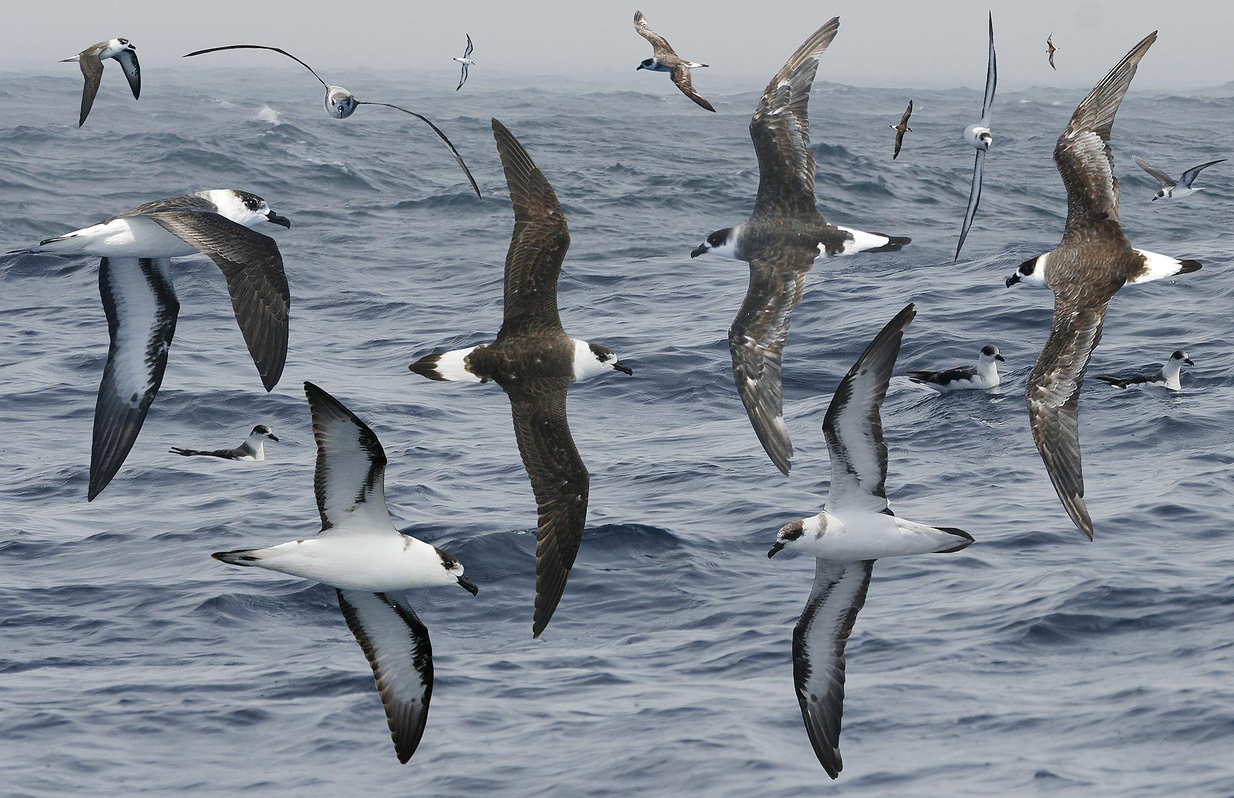 Black-capped Petrel From The Crossley ID Guide Eastern Birds